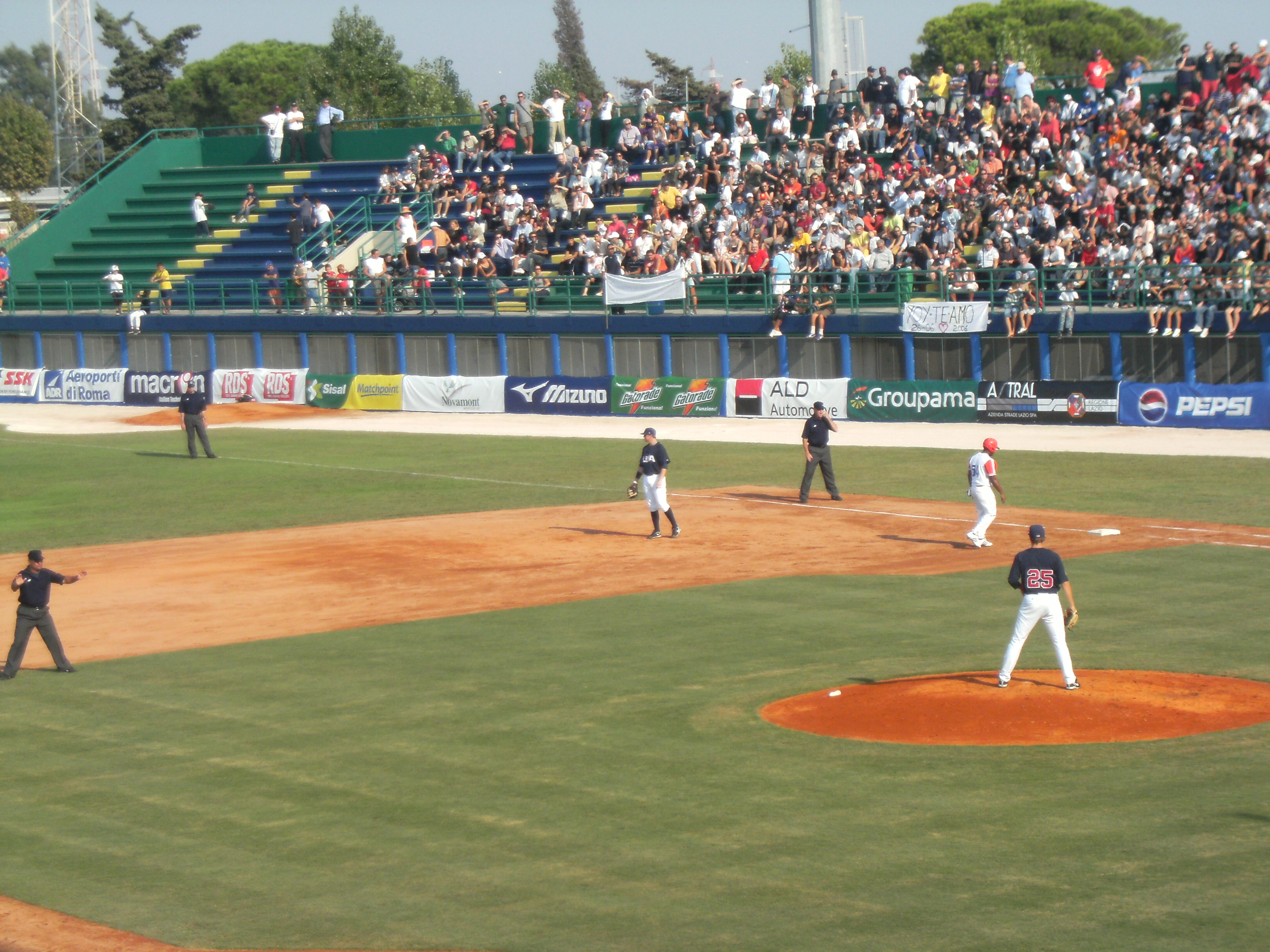 2009 Baseball World Cup - Final